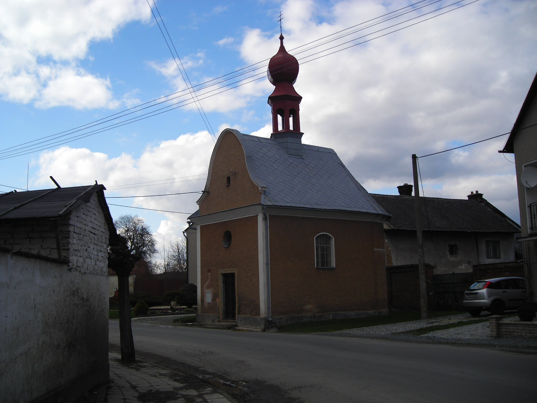 Chapel of St. John of Nepomuk in Střelice-Uničov (Czech republic)